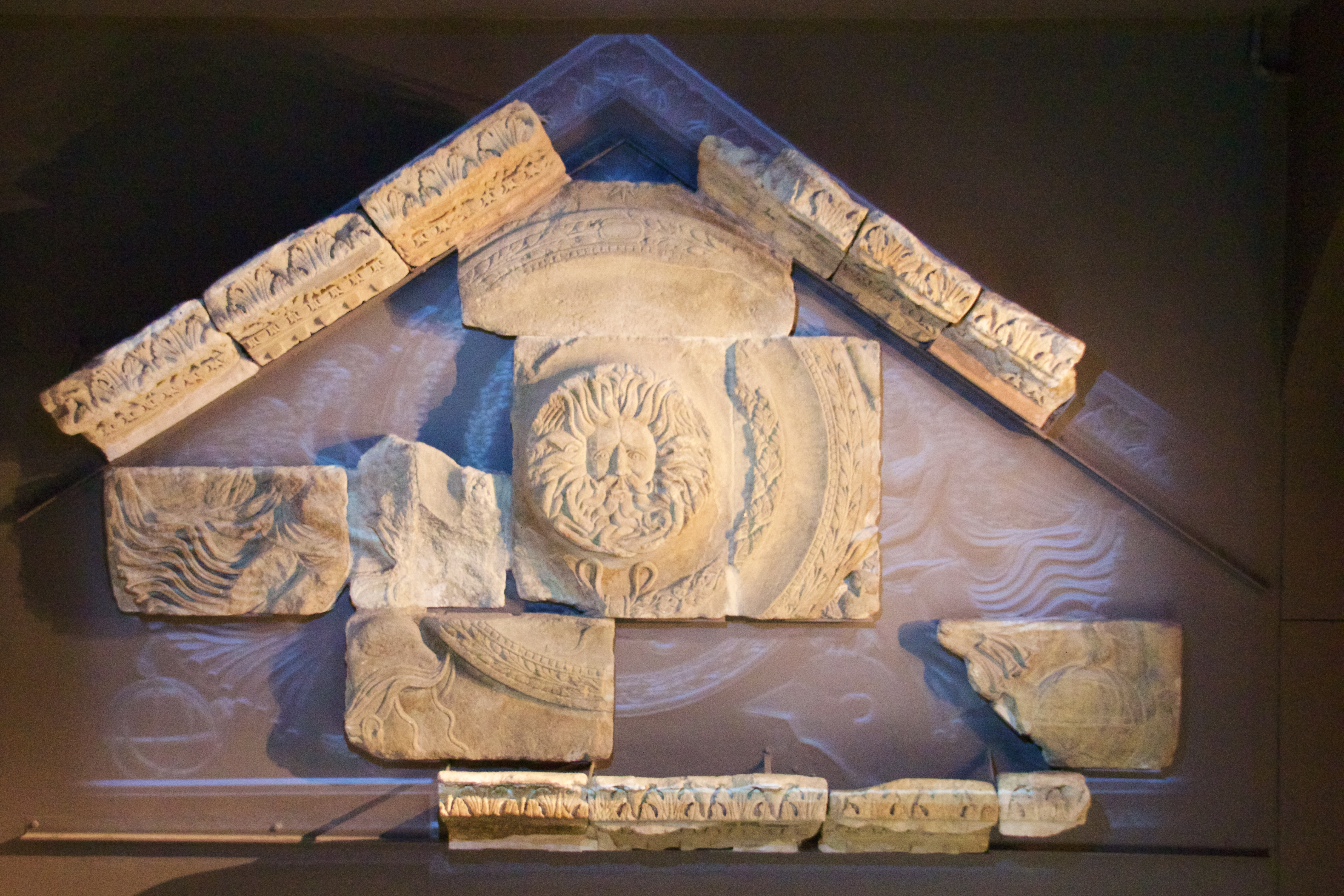 Roman baths, Bath, UK